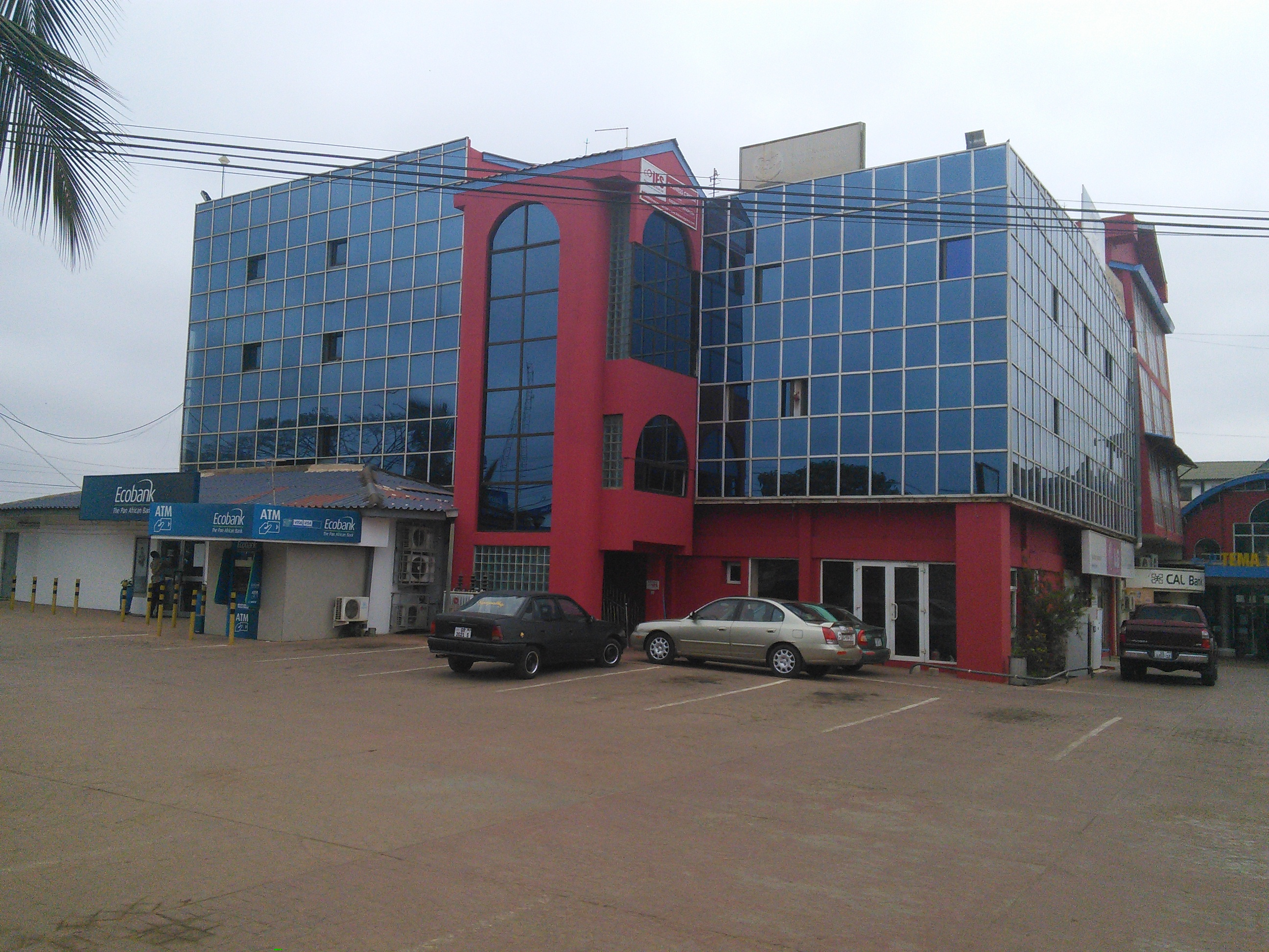 A sectional shot of the Tema Central Mall.